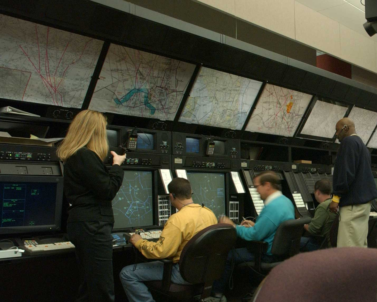 Air route traffic controllers at work at the Washington ARTCC.